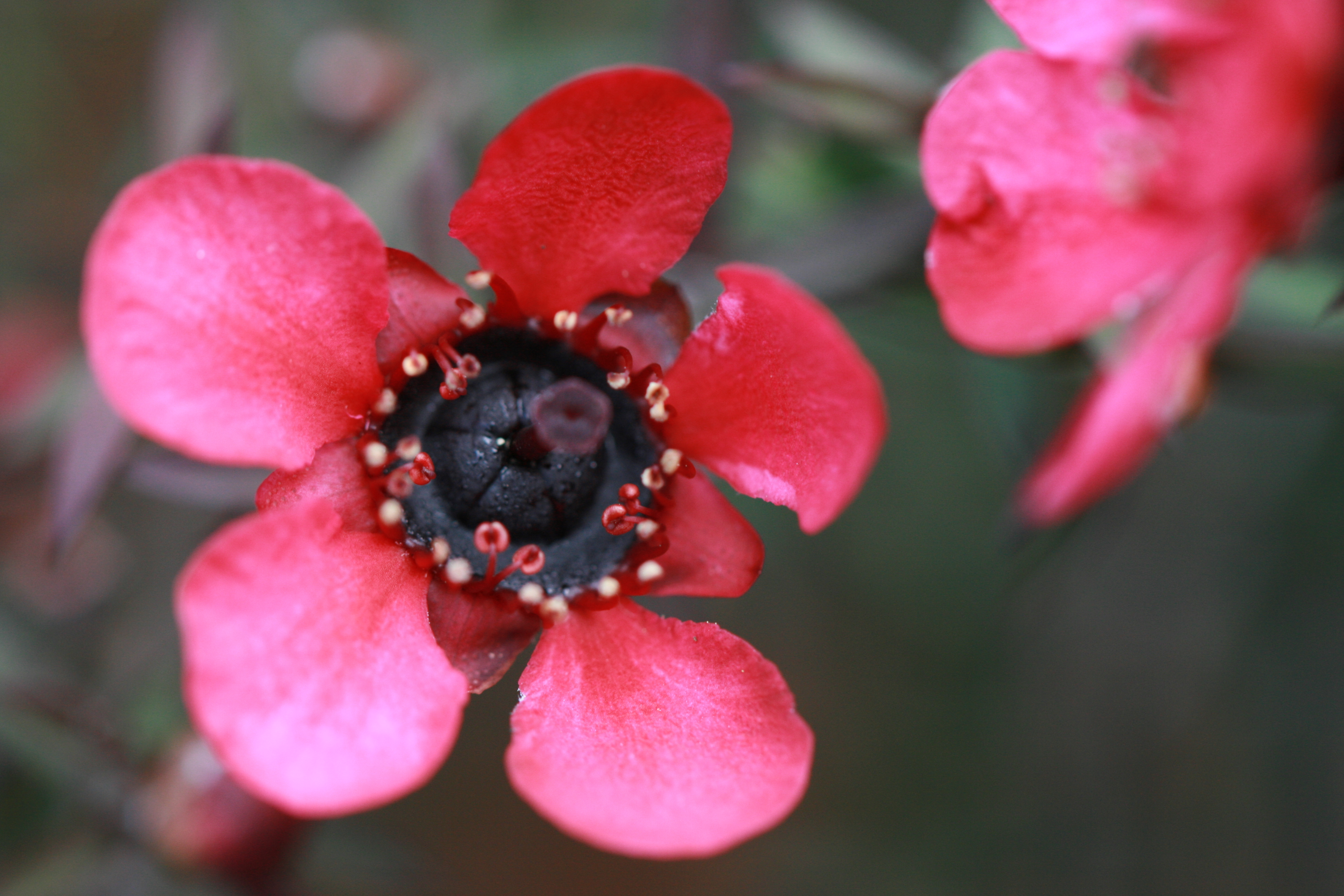 Leptospermum Wiri Donna (TM) in a Sydney nursery.